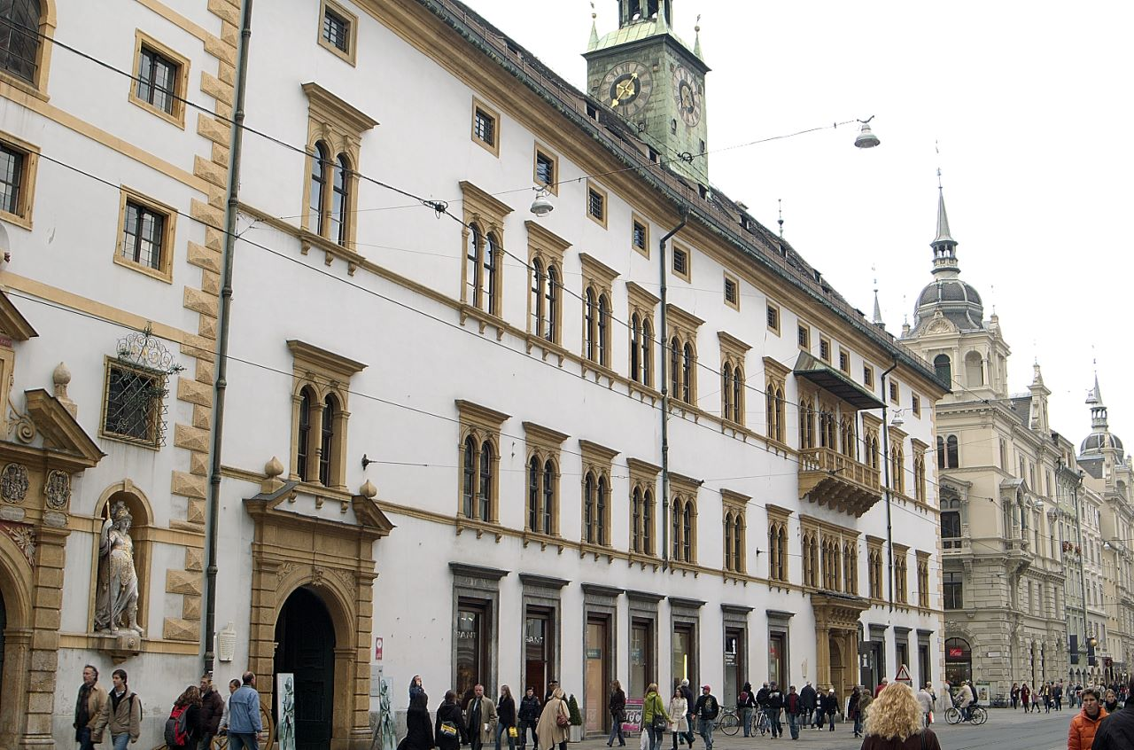 very left: Zeughaus (armory), middle: Landhaus, right: Rathaus (town hall) of Graz